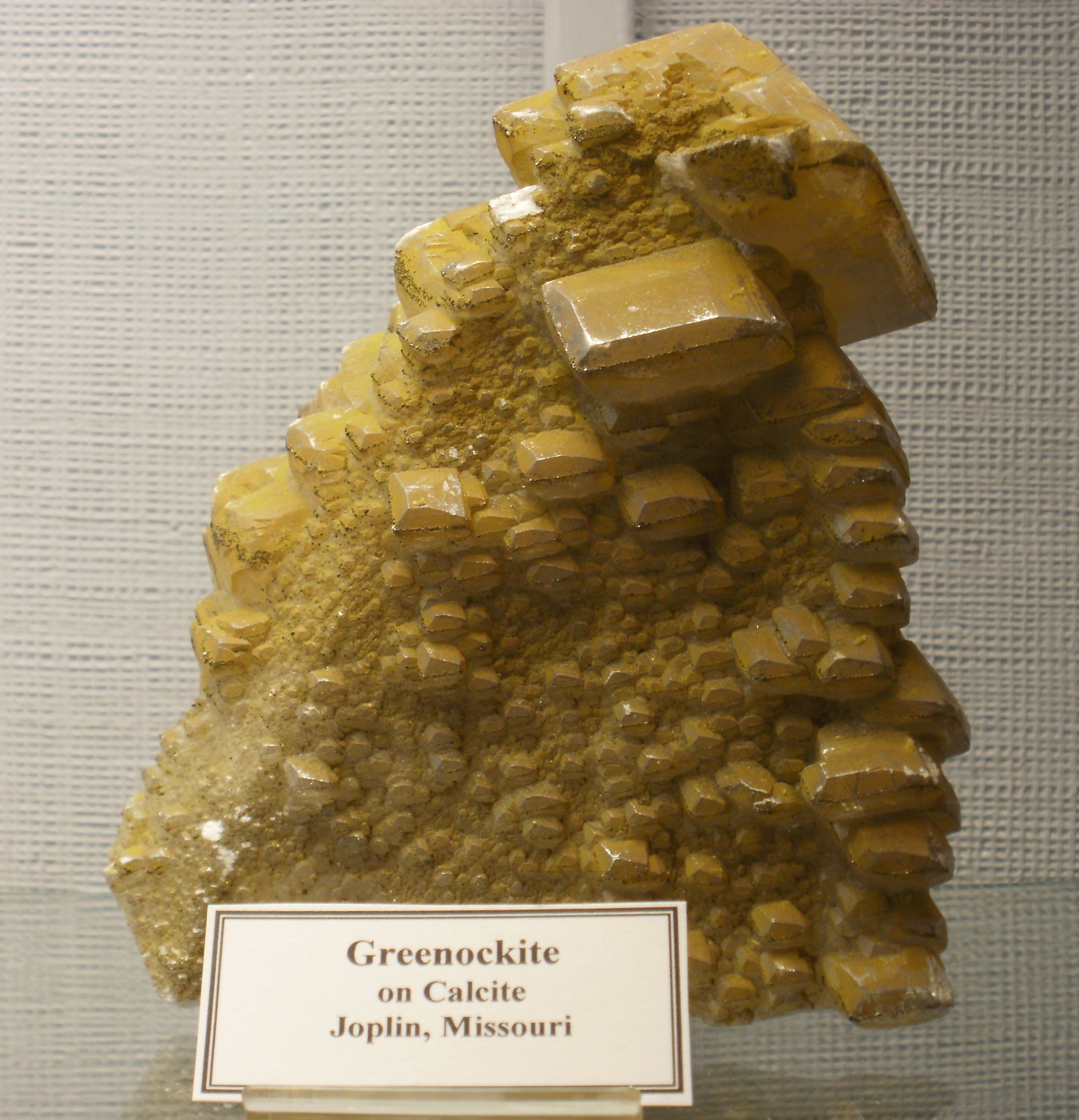 Greenockite on calcite from Joplin, Missouri. Held in the A. E. Seaman Mineral Museum.